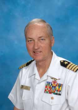 Current portrait of CAPT Thomas McClelland, USN Ret.